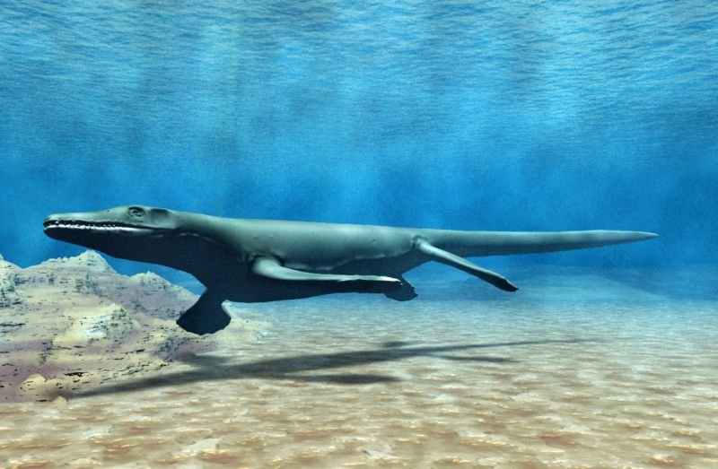 Platecarpus tympaniticus, a mosasaur from the Late Cretaceous of Kansas. Digital.